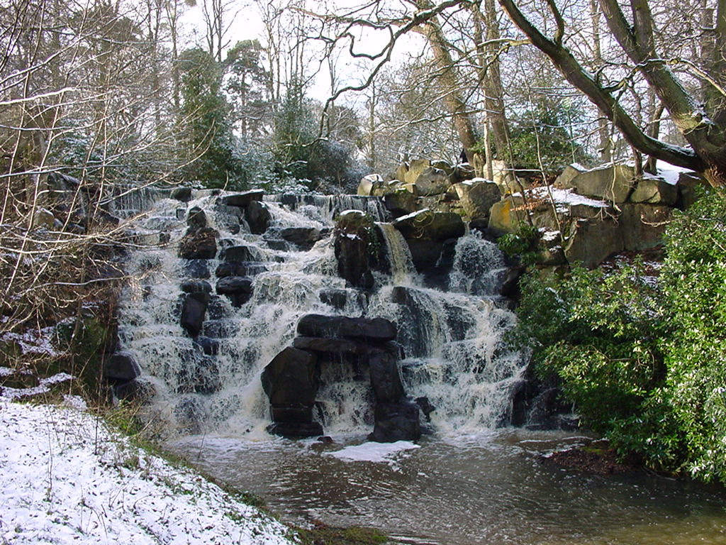 Tont Knights, my photo taken 29 December 2000